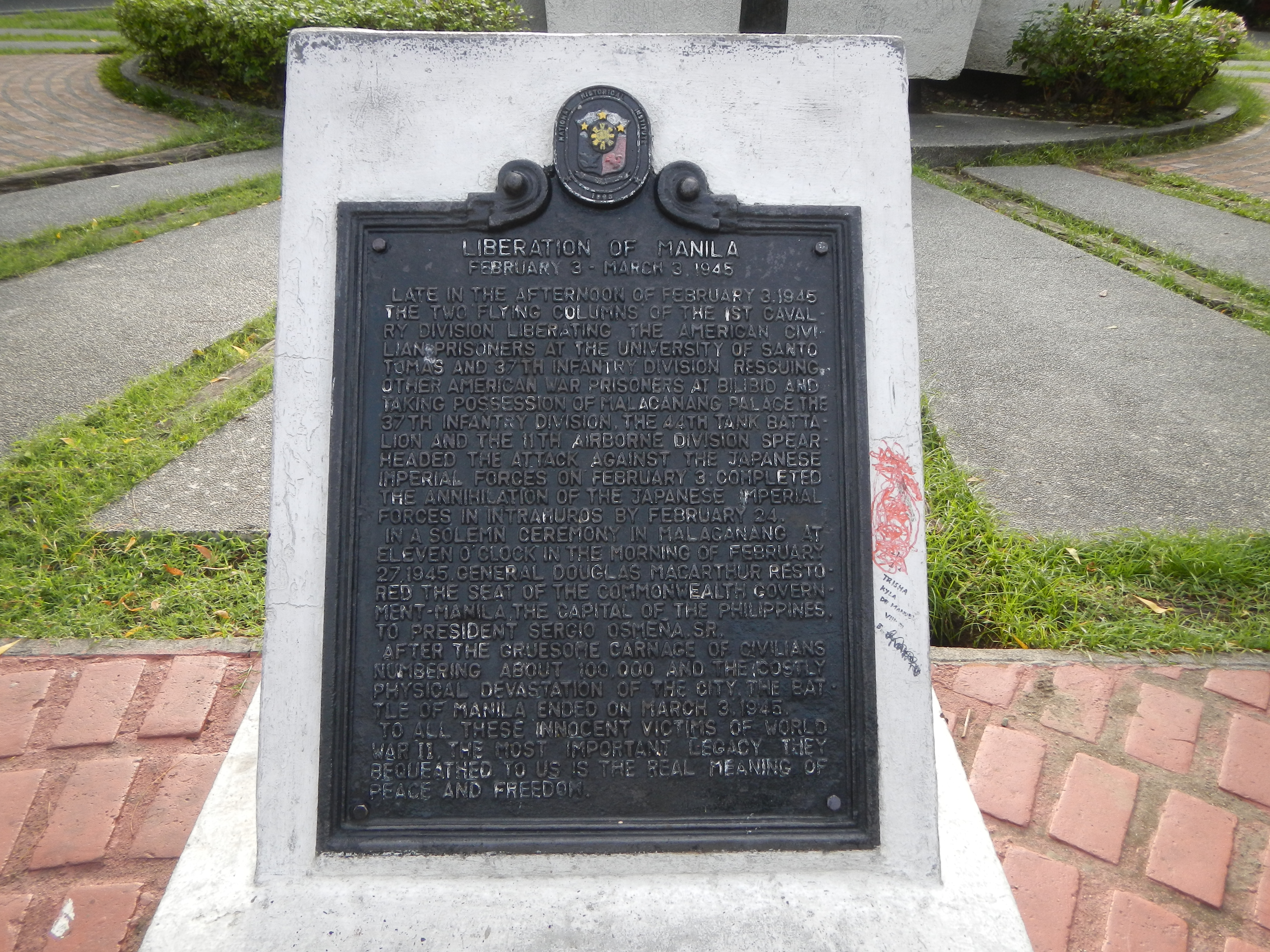 Freedom Park (Liberation of Manila), Garden and park fences (Malacañang Palace) City of Manila, in Legislative districts of Manila Barangay 646, Zone 67, part of Barangays 637, 638, 639, 640, 641, 642, 643, 644, 645, 646, 647 and 648, Zones 66 & 67, District V and VI, San Miguel, Manila beside Barangays 659, 659-A, 663 and 663-A, Zone 71, District V, Ermita, Manila, City of Manila, Malacañang Palace San Miguel San Miguel, Manila San Rafael Street corner Jose Laurel Street.